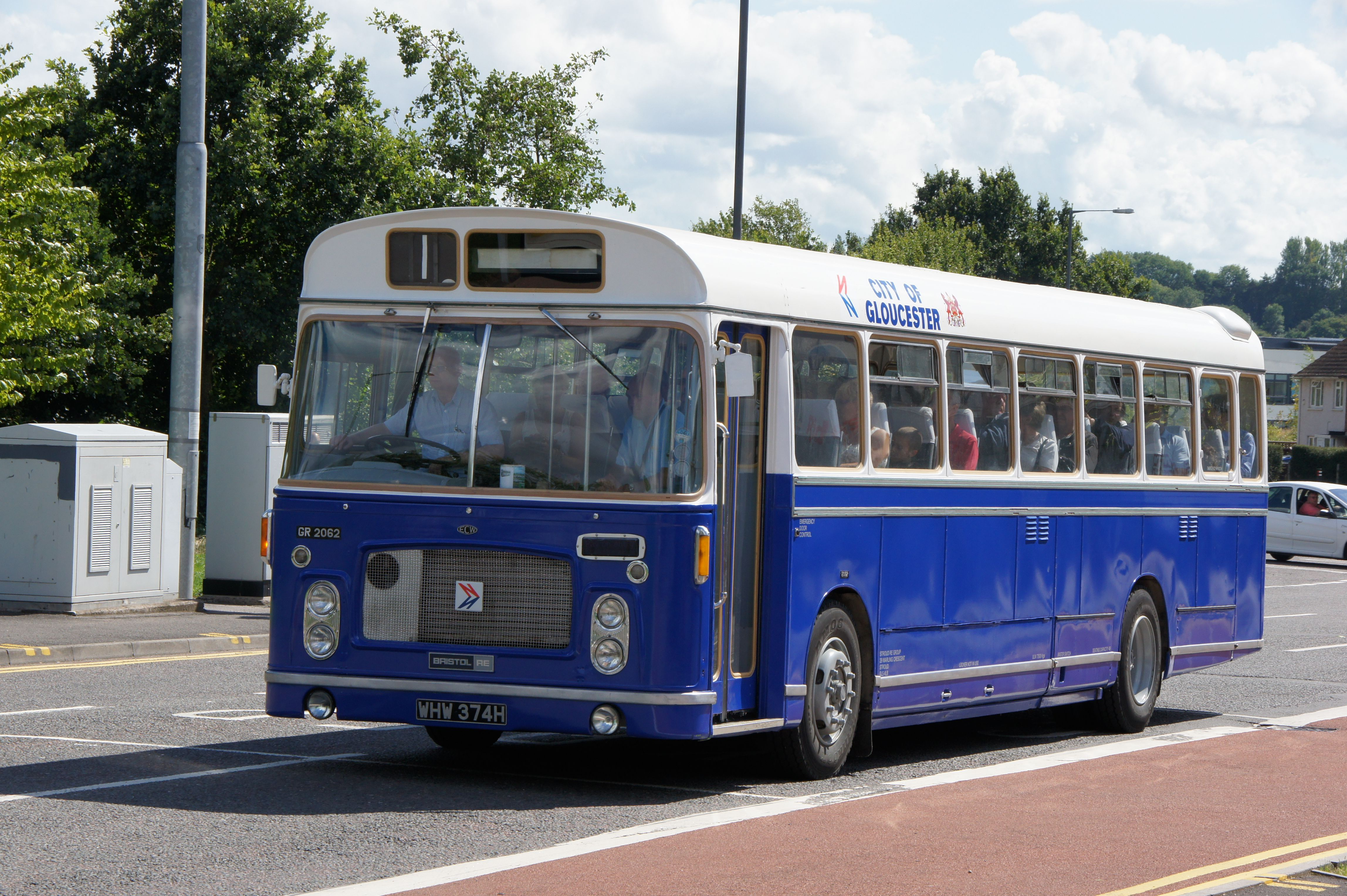 2062-WHW374H-3 140811 CPS